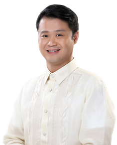 Sherwin Gatchalian, alumna of Boston University